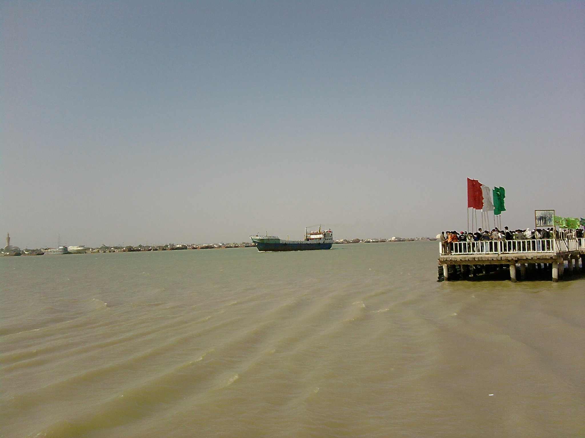 mouth of river arvan to the Persian gulf. (shat el Arab) arvand kenar in Iran and city of fav in Iraq a city of bloody war . the Persian gulf war 1 and 2